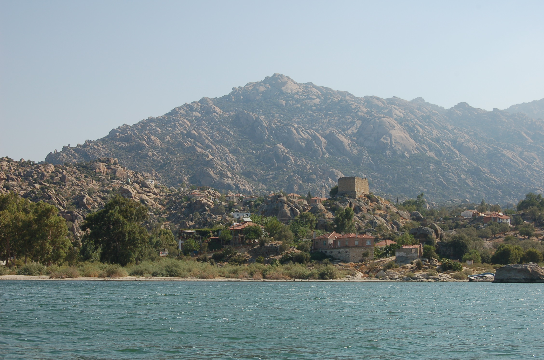 The village of Kapıkırı is situated among the remains of ancient Heraclea by Latmus. Somewhat right of the centre of the image the temple of Athena can be seen.